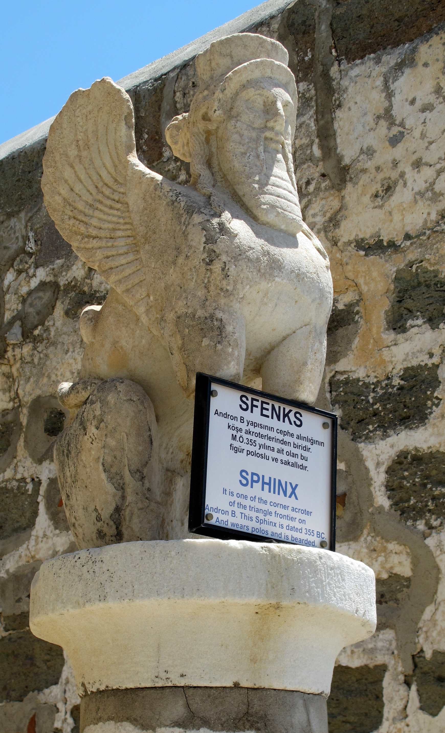 Labraunda: male sphynx from the temple of Zeus Labraundos (355 BC, hight 1 meter; now in the Bodrum Castle; description).